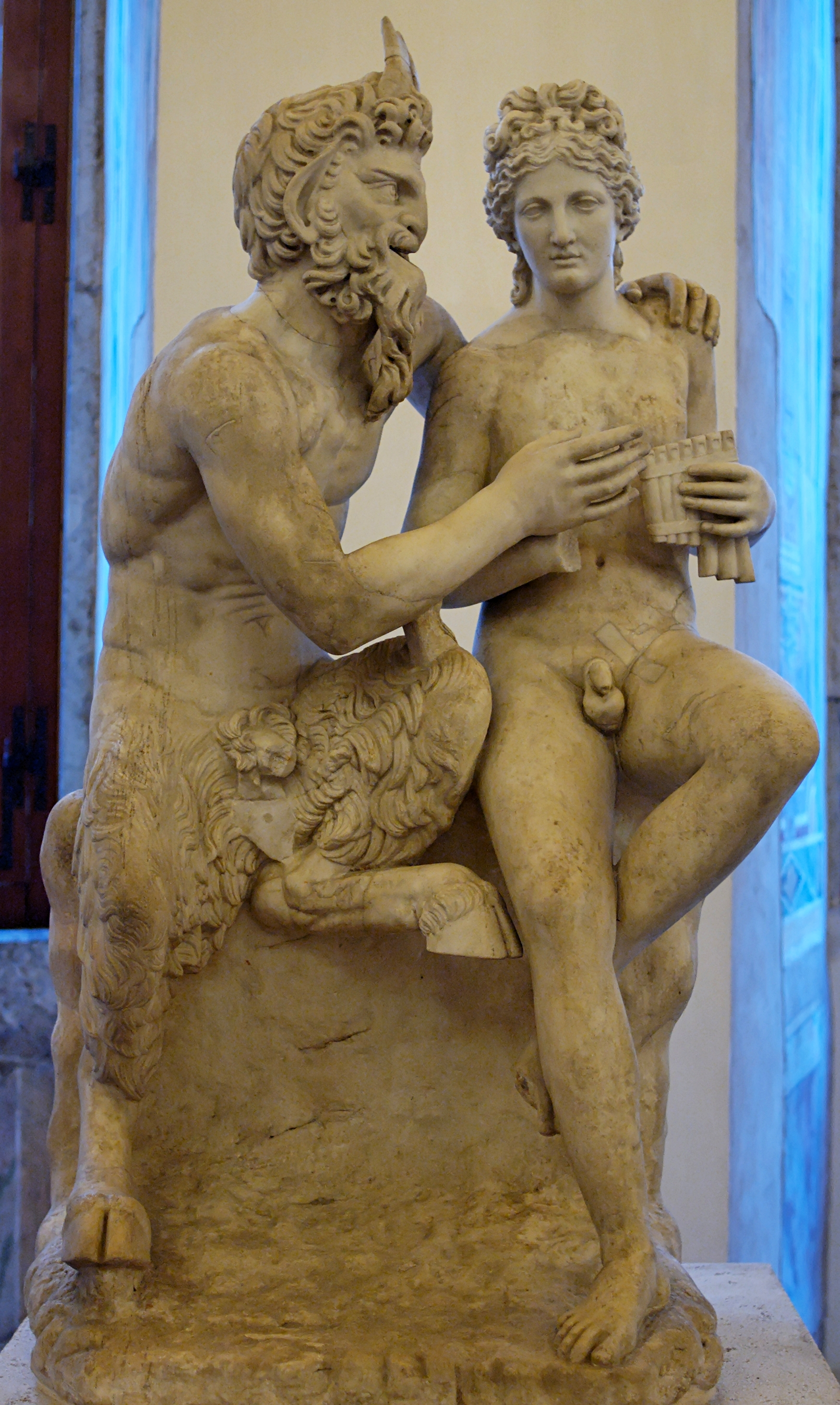 Pan teaching Daphnis to play the flute. Marble, Roman copy after an Hellenistic original. Pan's and Daphnis' heads and Daphnis' right arm are restorations.